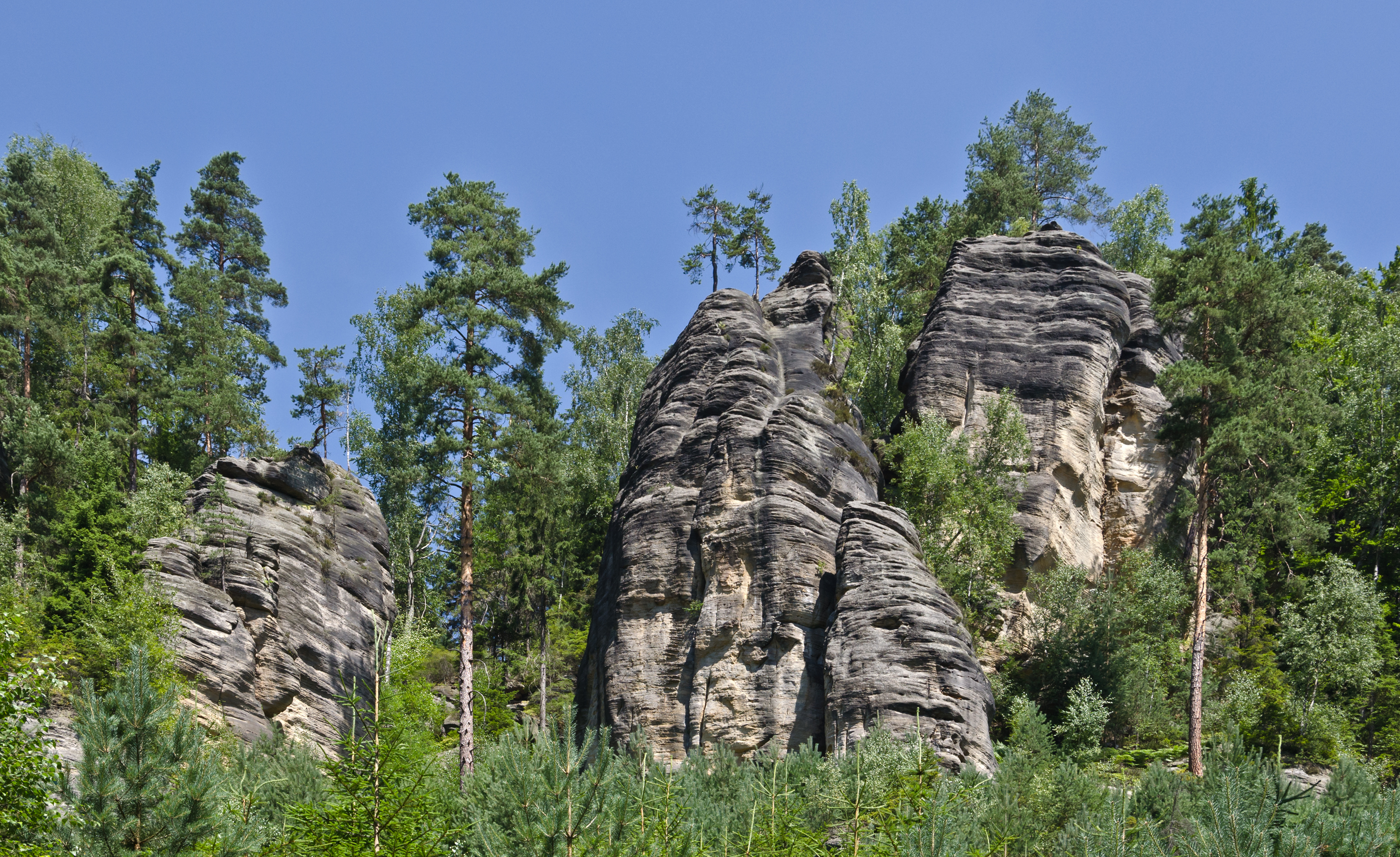 Adršpach-Teplice Rocks